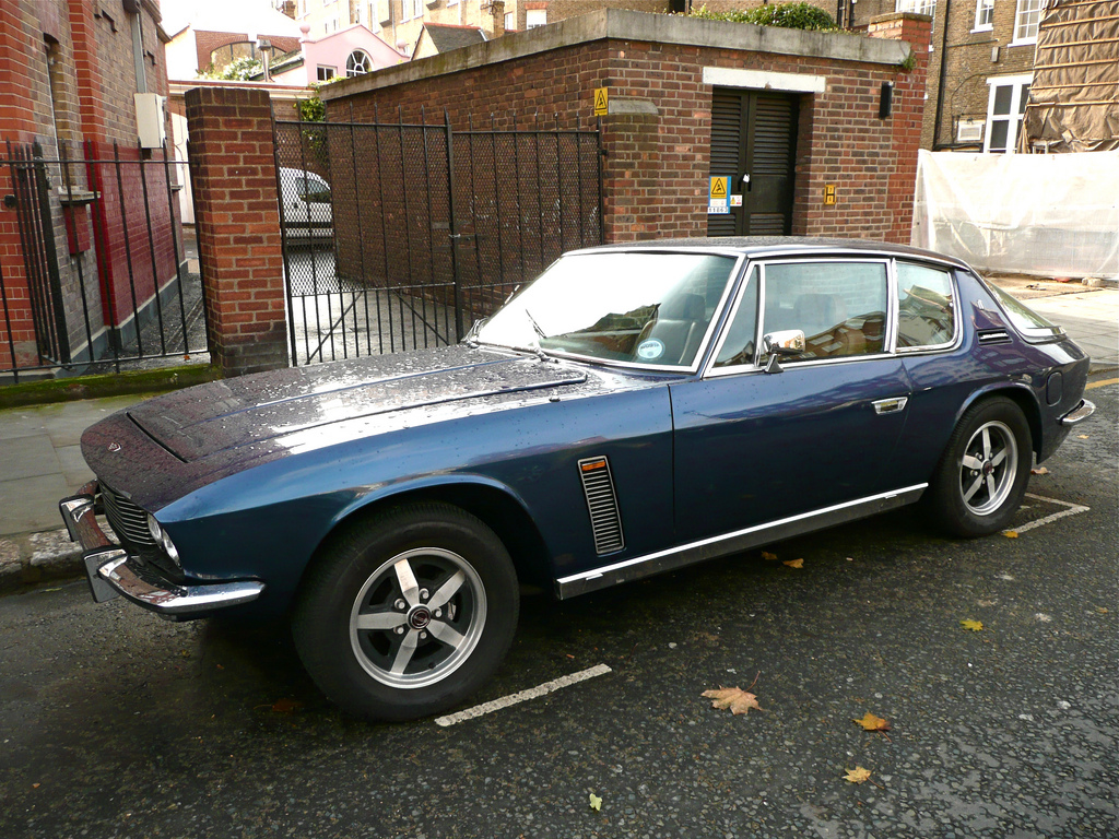 Jensen Interceptor (DVLA) first reg 5 July 1973 One of those obscure (well at least to the uninitiated like me) British (I assume), now defunct (I think) car makes. Some really interesting details which make for a design full of character. Think the rear looks a bit of a botched design work though, in my opinion - kind of a good design idea that did not completely come through in execution. I realise I like these old cars quite a lot. Like the fact that they look like they were designed more by hand rather than with significant computer help.